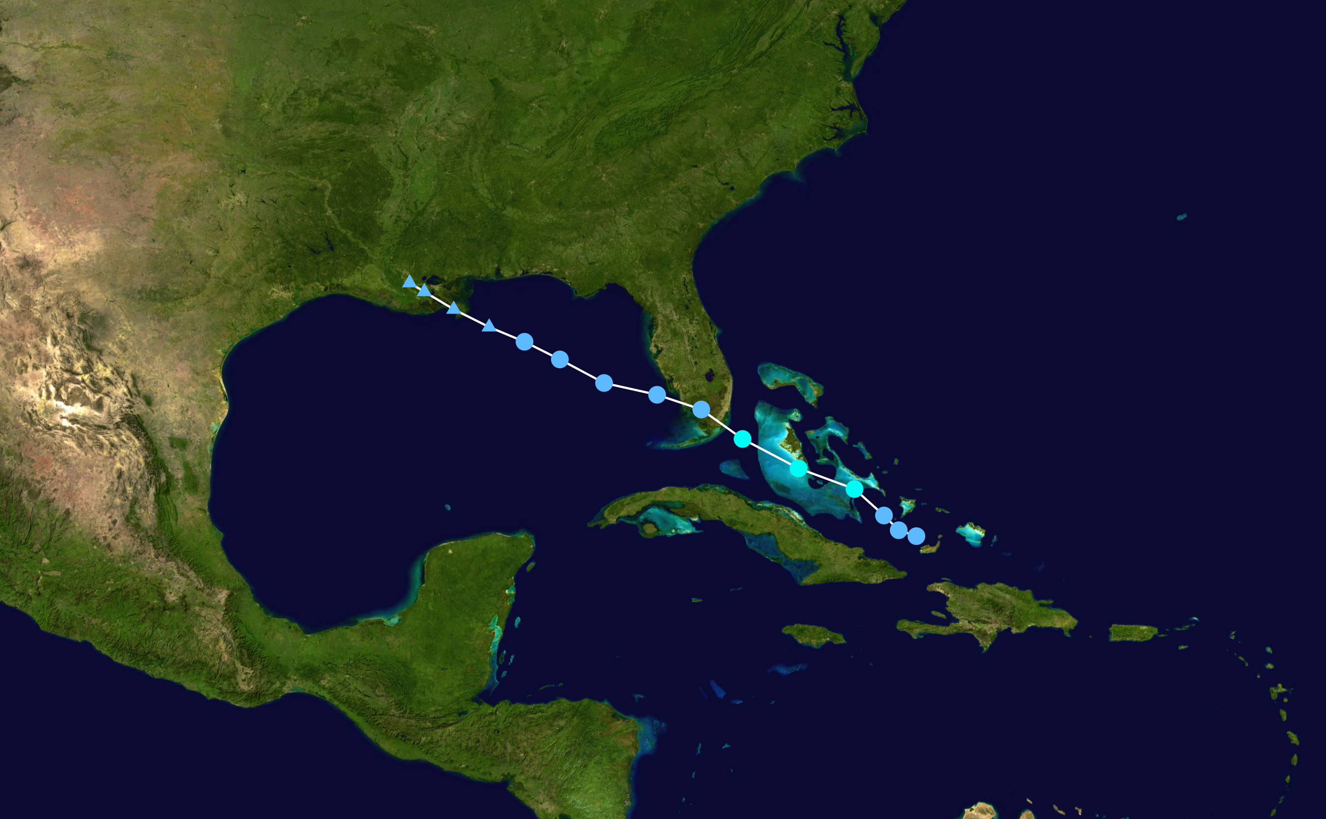 Track map of Tropical Storm Bonnie of the 2010 Atlantic hurricane season. The points show the location of the storm at 6-hour intervals. The colour represents the storm's maximum sustained wind speeds as classified in the Saffir–Simpson scale (see below), and the shape of the data points represent the nature of the storm, according to the legend below. Saffir–Simpson scale Tropical depression≤38 mph≤62 km/h Category 3111–129 mph178–208 km/h Tropical storm39–73 mph63–118 km/h Category 4130–156 mph209–251 km/h Category 174–95 mph119–153 km/h Category 5≥157 mph≥252 km/h Category 296–110 mph154–177 km/h Unknown Storm type Tropical cyclone Subtropical cyclone Extratropical cyclone / Remnant low / Tropical disturbance / Monsoon depression